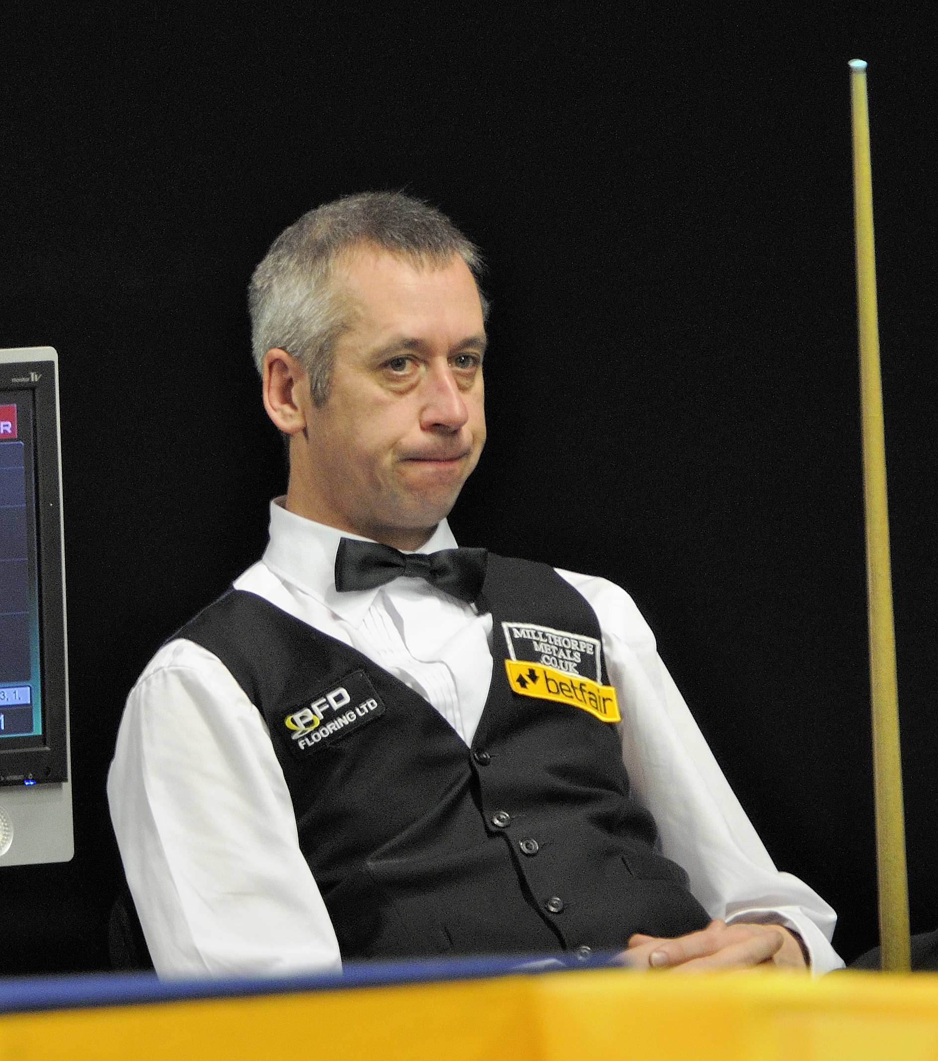 Picture taken in Berlin during the Snooker German Masters in 2013. Nigel Bond.